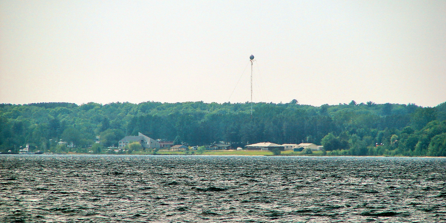 Christian Island, Ontario, Canada. Together with Beckwith Island and Hope Island, it is part of an Ojibwa First Nation reserve.